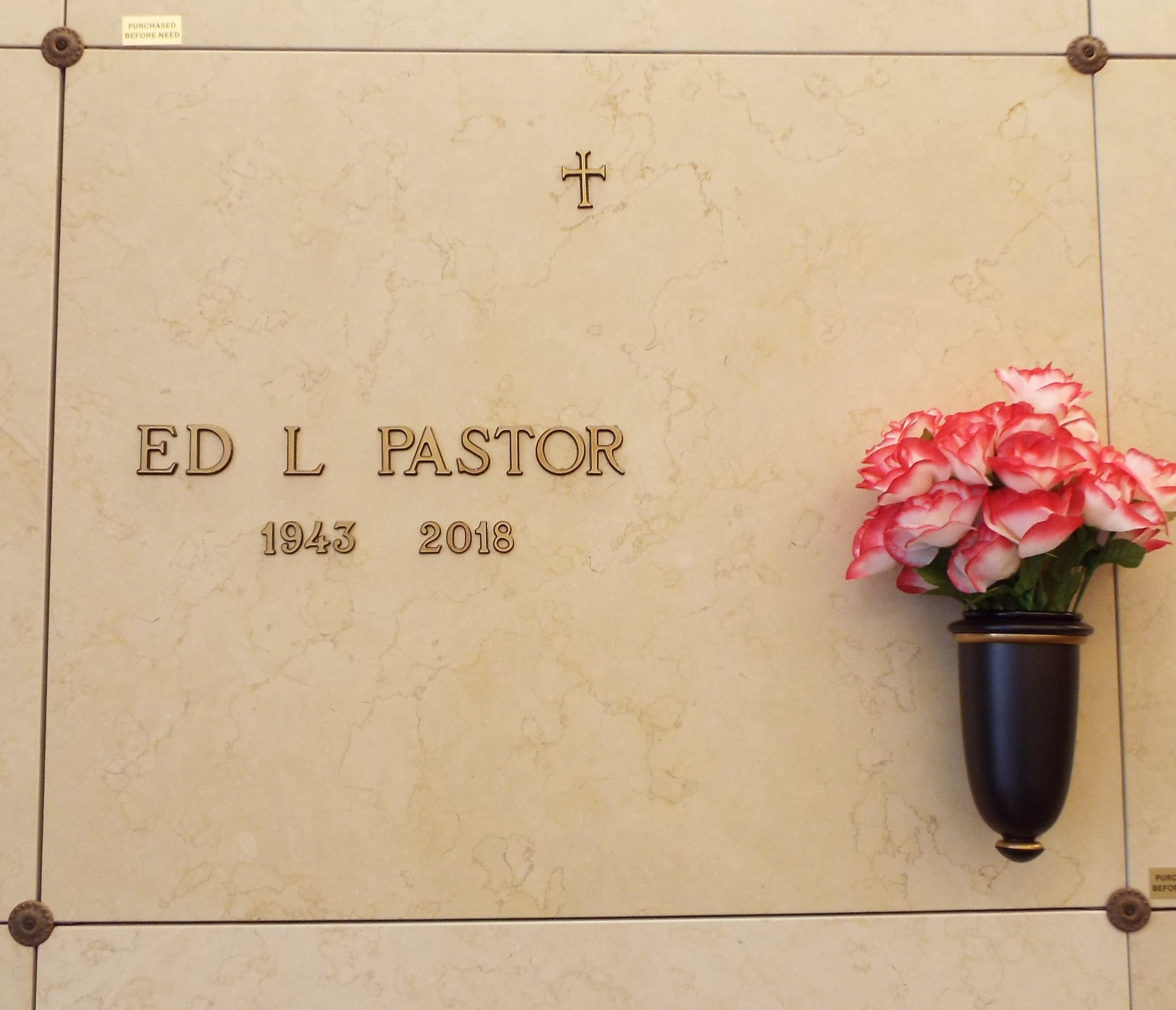 Grave of Ed Pastor (1943 – 2018), Pastor was the first Latino to represent Arizona in Congress. He served from 1991 to 2015.